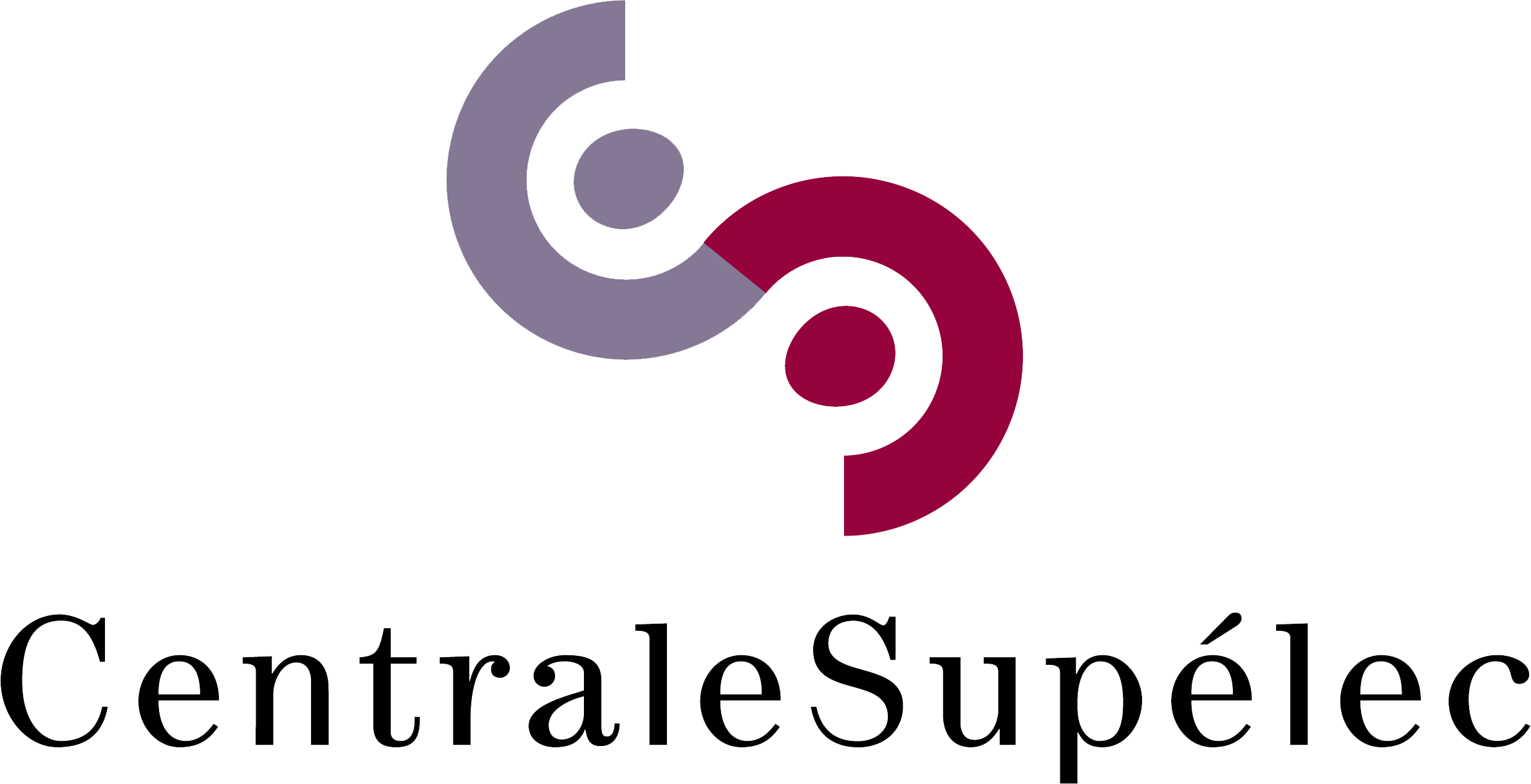 This is the logo of CentraleSupélec, the new alliance between Ecole Centrale Paris and Ecole Supélec. They showed this new logo during the Forum Centrale Supélec 2011.